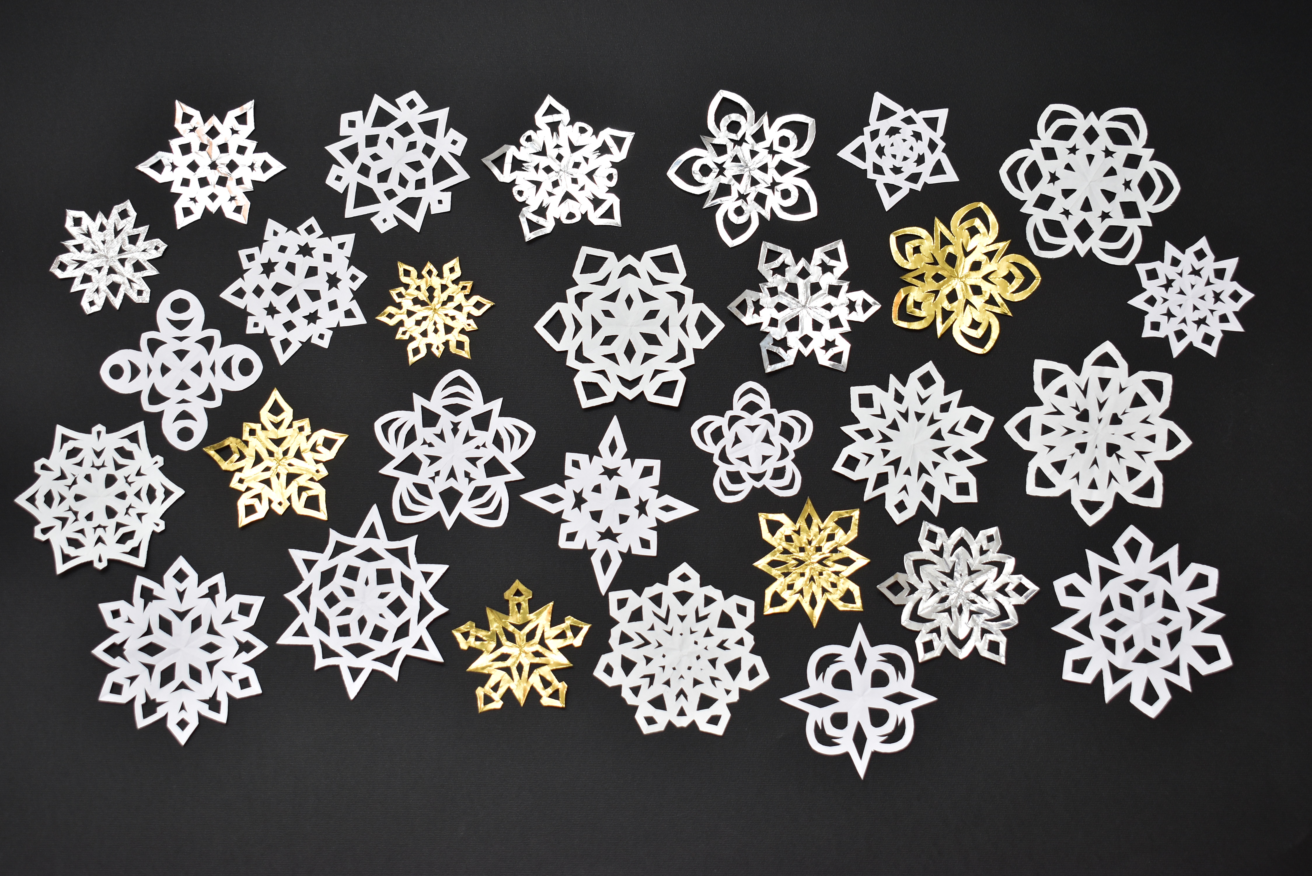 Snowflakes are the perfect example of rotational symmetry in nature, normally in hexagonal shape. These paper snowflakes have four to eight repetitions of pattern, depending on the way the paper was folded before it was cut.